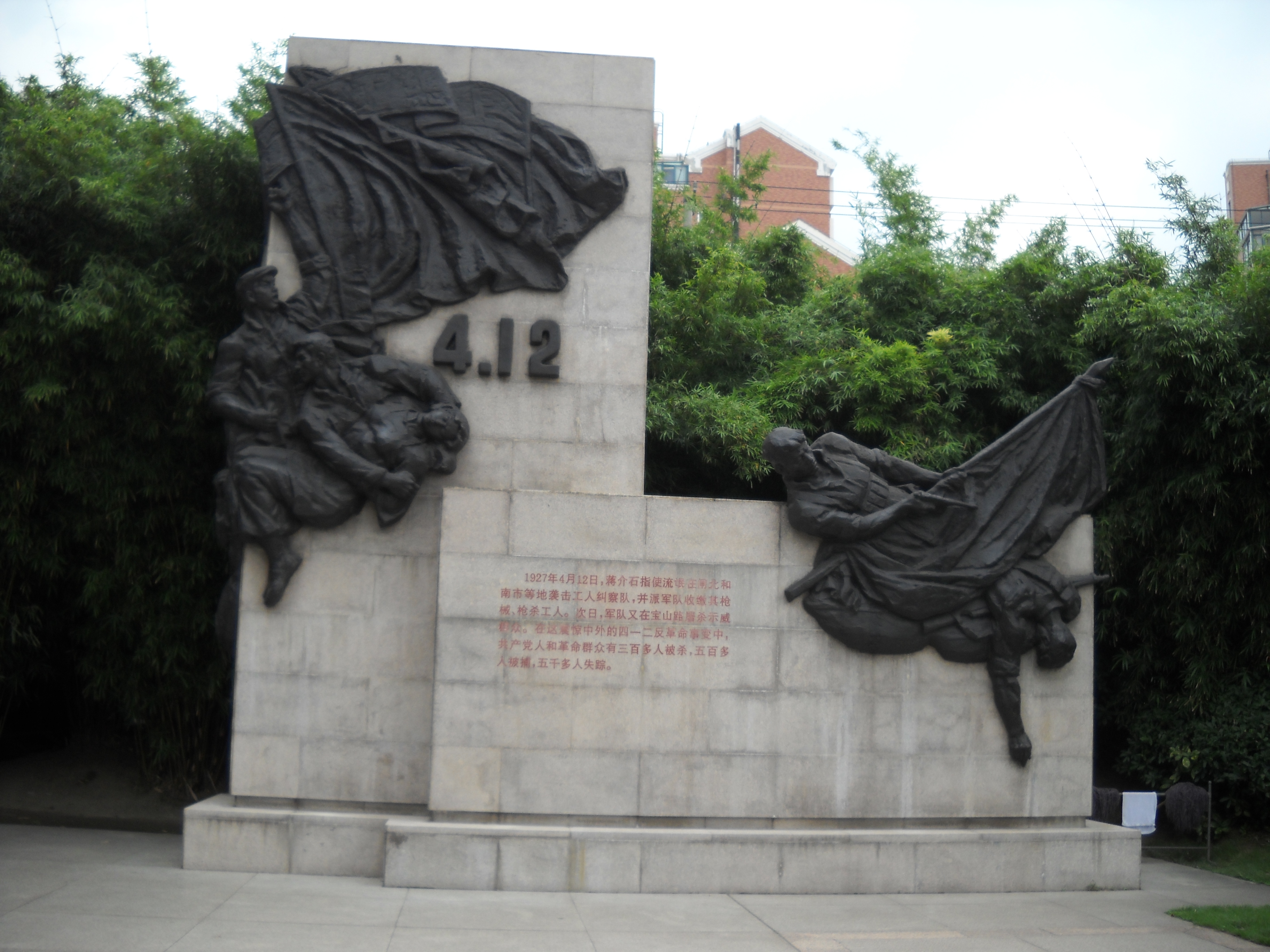 The April 12 Incident